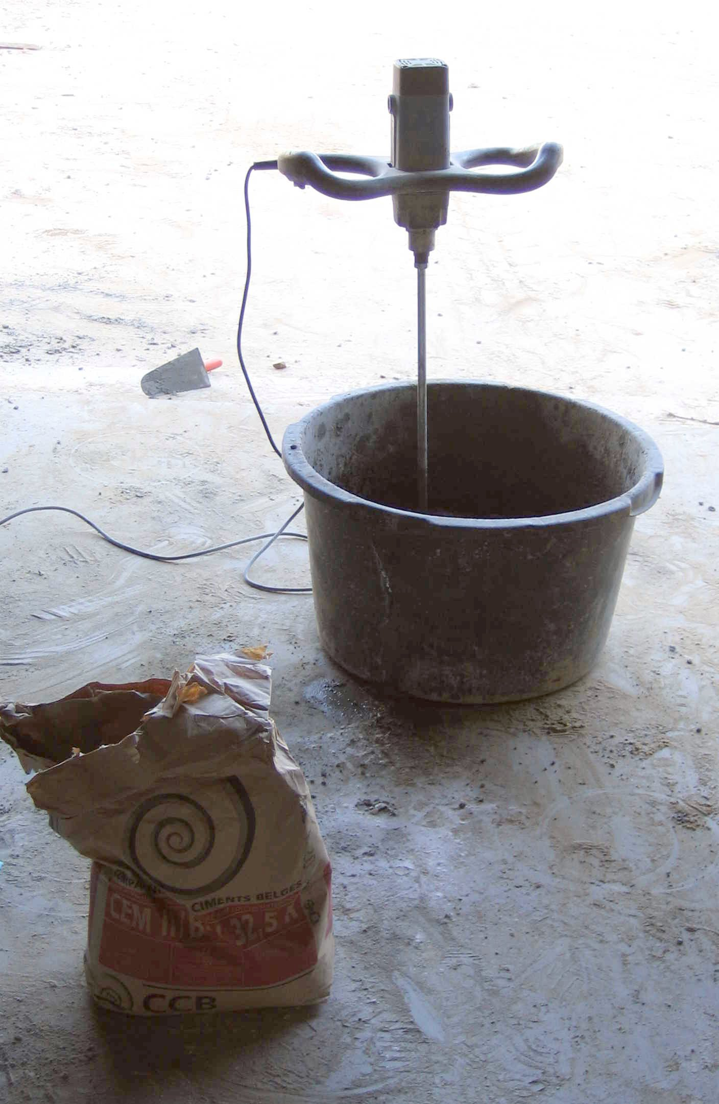 A bag of Portland cement being mixed with sand and water. 1 part cement is used for 3 parts sand; water is added until smooth but not fluid.